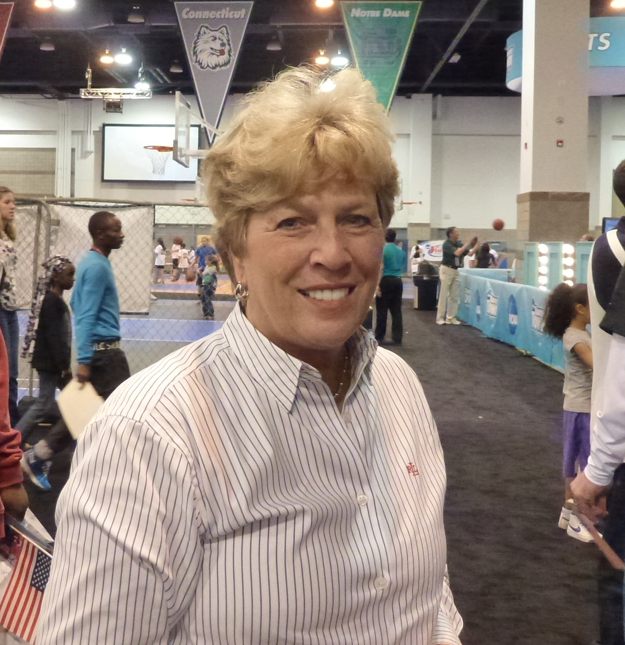 Marynell Meadors, head coach and general manager of the Atlanta Dream. Taken at the 2012 WBCA Convention, at the announcement of the 2012 Women's basketball Olympic team